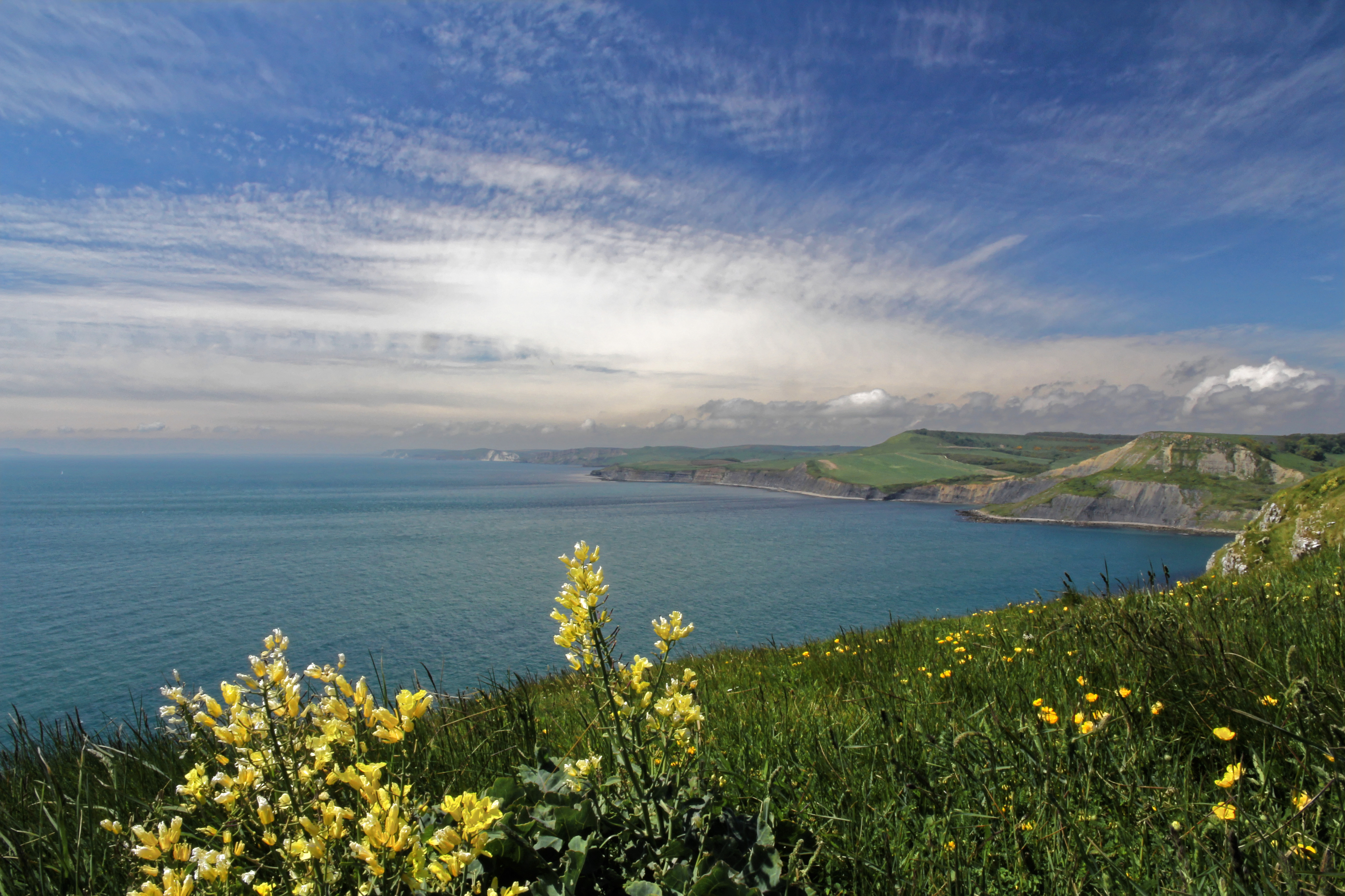 The Jurassic Coast in Dorset, looking west from St Aldhelm's Head. Visible coastal features from right to left are: Chapman's Pool (the nearest bay in the foreground), Egmont Point, Egmont Bight, Swyre Head, the Kimmeridge Ledges, Gad Cliff, Worbarrow Bay (below the white cliffs) and Bindon Hill.